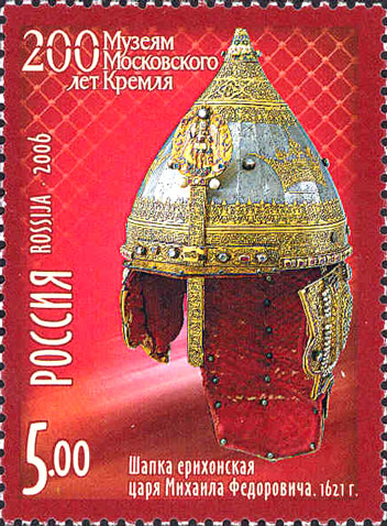 The 200th anniversary of the Moscow Kremlin museums. The capeline of Tsar Michael I, 1621.